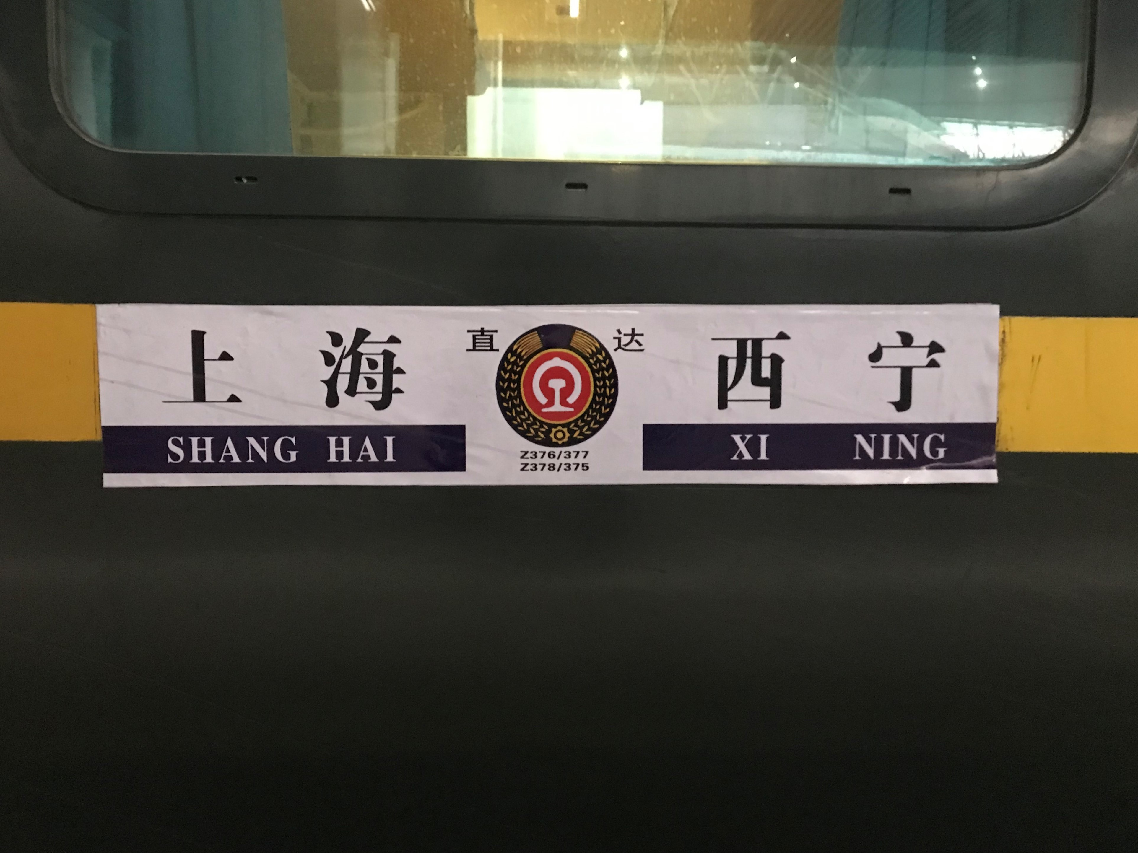 No interest in catching when it was a K train due to its bad schedule, however it suddenly upgraded to a Z train and using Tibet-version BSP...